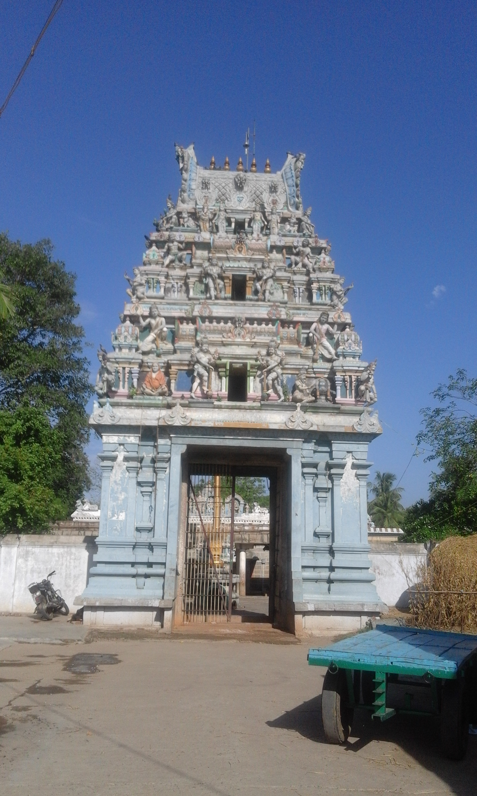 Vyakrapatheeswara Temple, Sithalingamadam